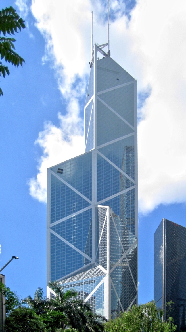 HK Bank of China Tower 中銀大廈 (香港), designed by I. M. Pei